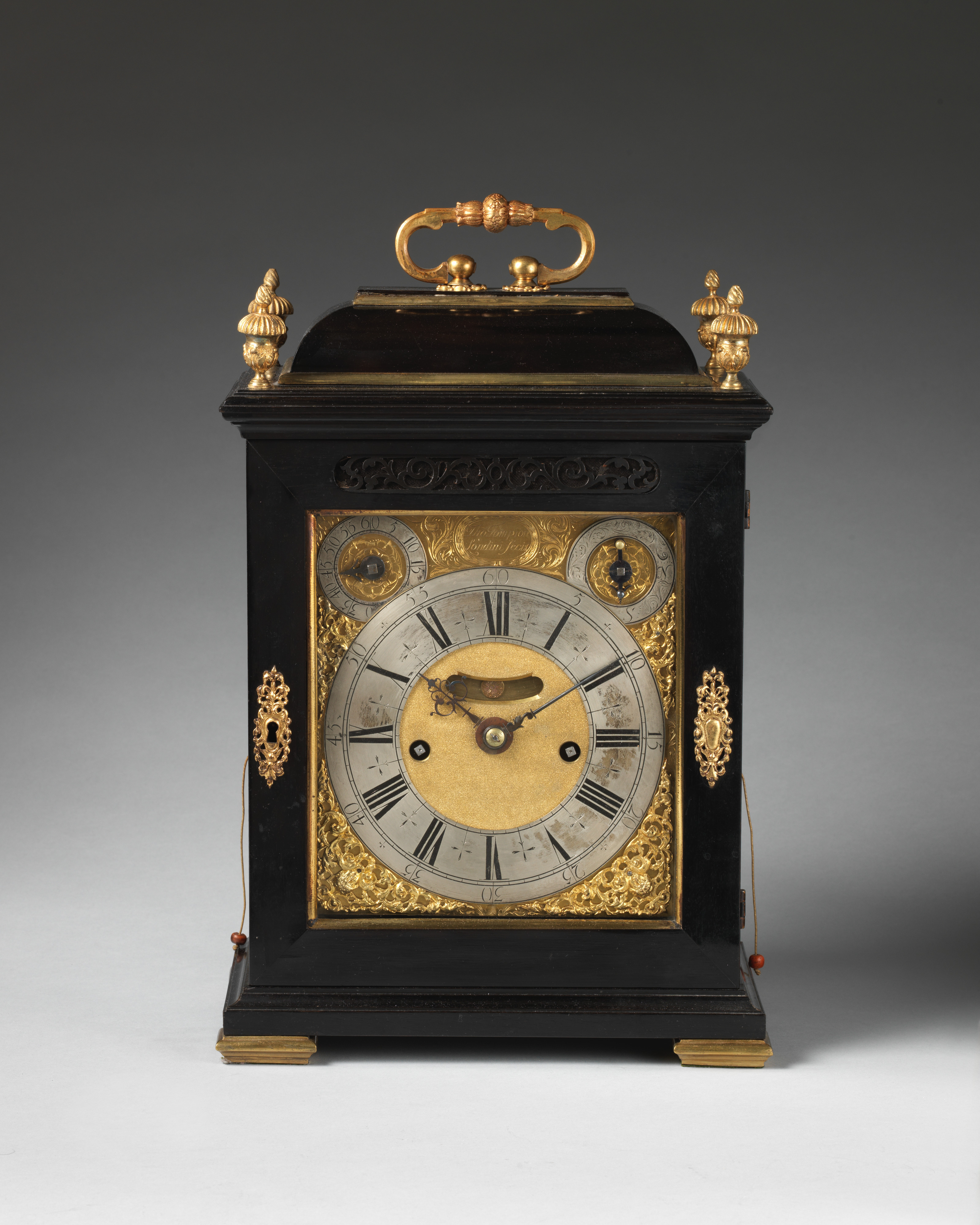 British, London; Bracket clock; Horology